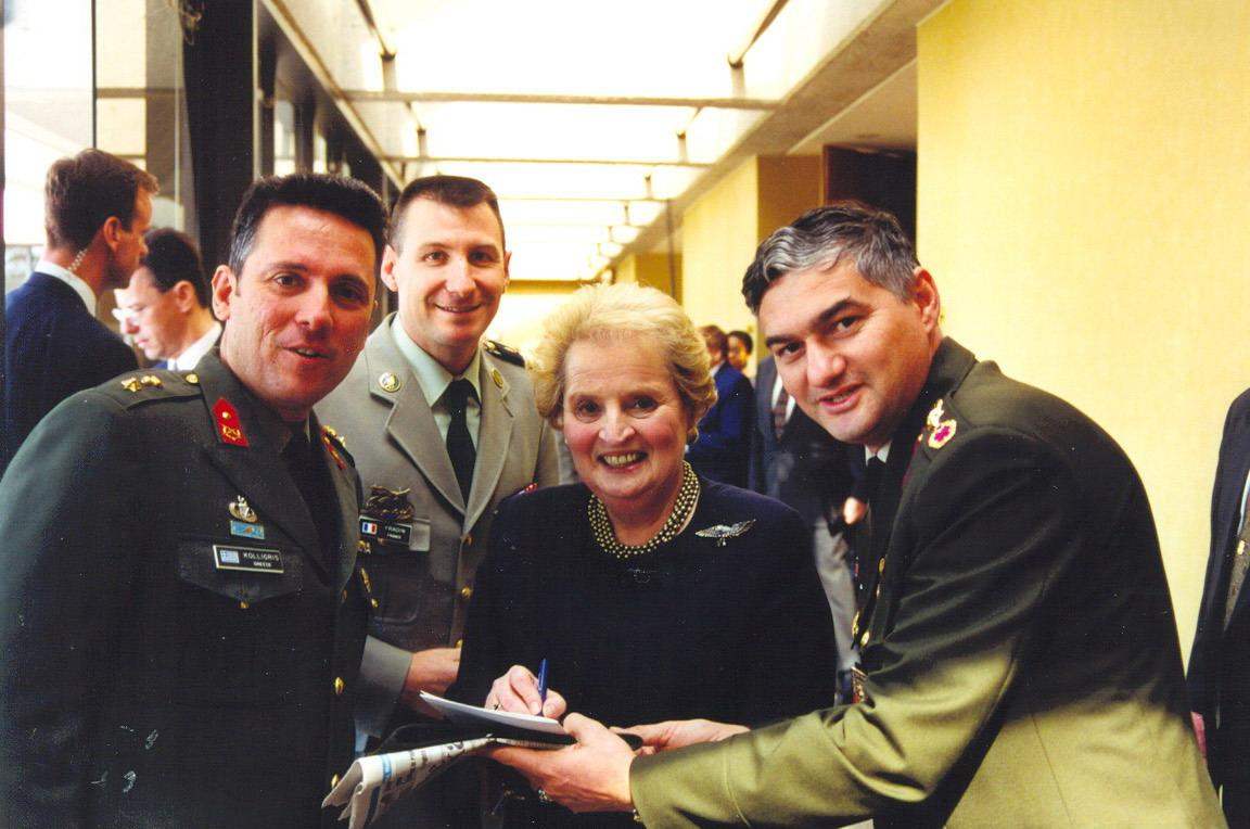 Madeleine Albright with NATO officers